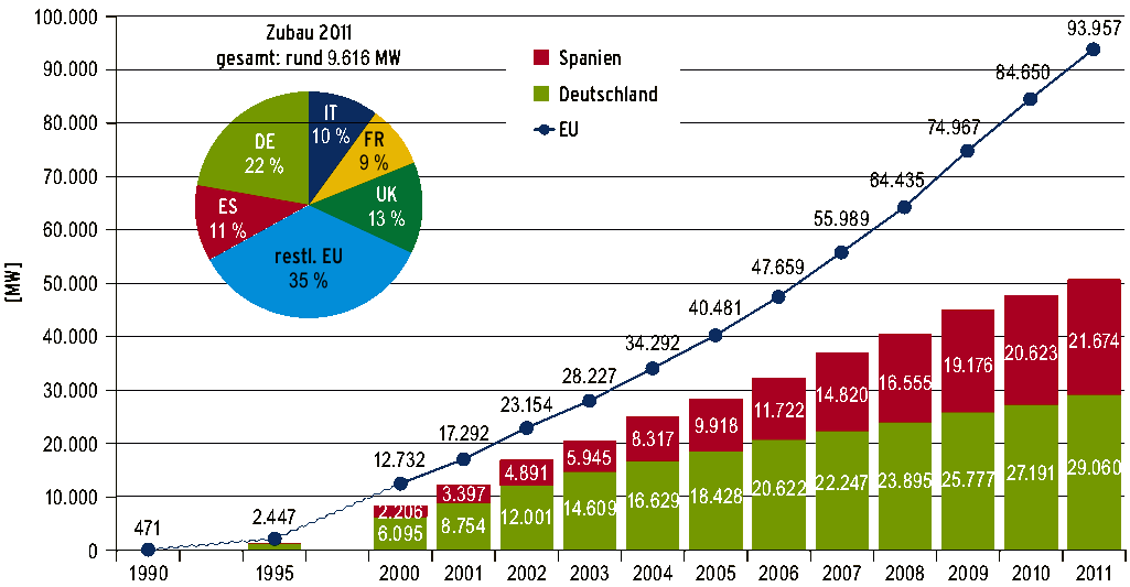 chart of accumulated wind power evolution in EU from 1990-2009 and 2009 erection in some european countries